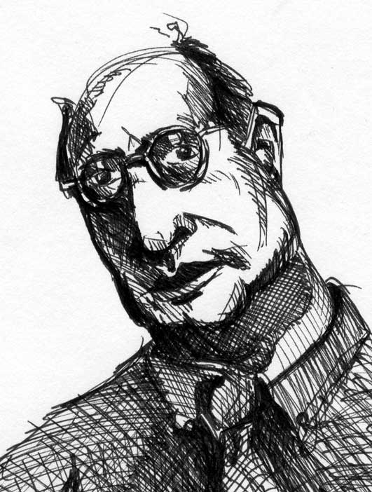 Mark Rothko Portrait. Pilot V7 on Sketch Paper, 6x9 inches